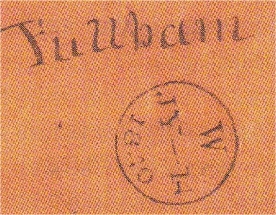 Fulham datestamp of London, England